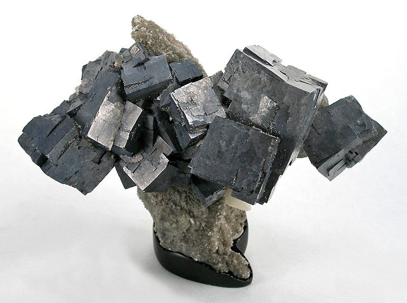 Galena Locality: Sweetwater Mine (Milliken Mine; Frank R. Milliken; Blair Creek; Ozark Lead Company Mine; Adair Creek; Logan Creek), Ellington, Viburnum Trend District, Reynolds County, Missouri, USA (Locality at ) OK, we have all seen a number of galenas from the missouri mines, but even so folks, this is a particularly dramatic piece with great aesthetics! The cluster of galenas is displayed so nicely on this natural pedestal, its hard to believe its natural! A very showy, large, display specimen! 13.8 x 11.0 x 6.1 cm